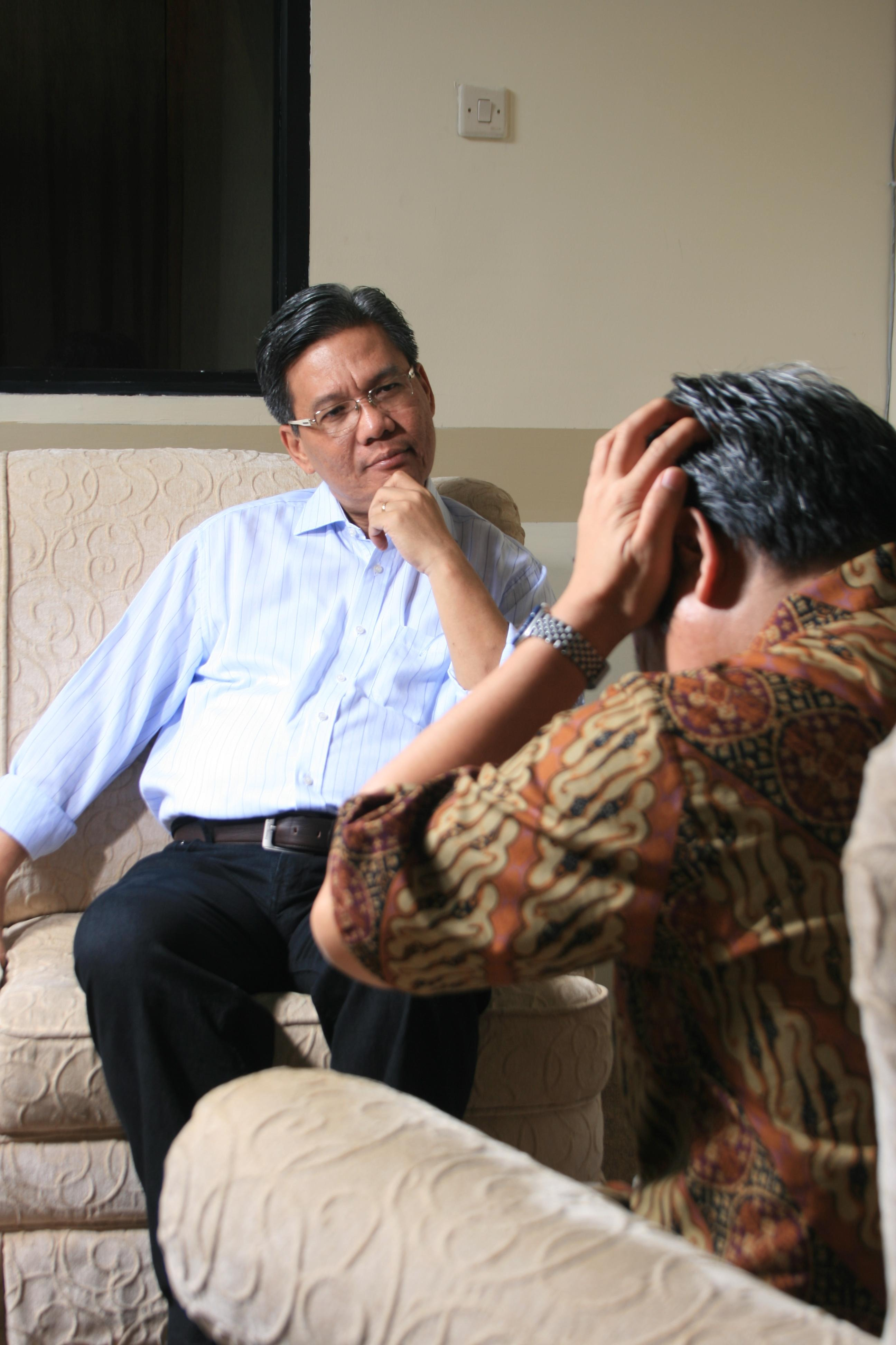 Counseling